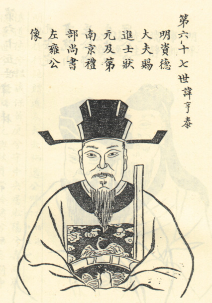 Ren Hengtai, politician of the Ming Dynasty.